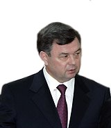 Anatoly Artamonov, a Russian politician.